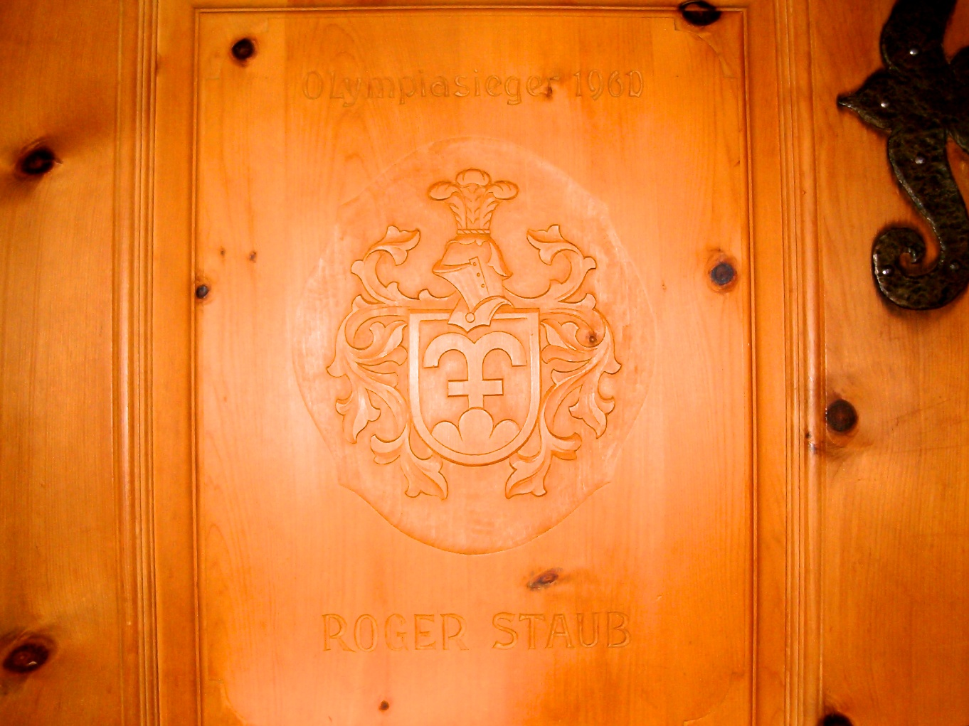 Wooden door at Sattelhütte, Arosa/Switzerland, in memory of Roger Staub's olympic victory 1960